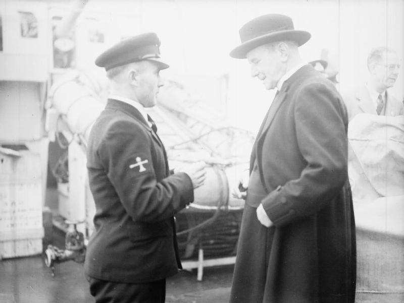 Citizens of Ely (cambridgeshire) Visit Their Adopted Ship. 8 December 1943, Harwich. the Very Rev the Dean of Ely and Members of Ely's Two Councils Visited Their Adopted Ship, the V and W Class Destroyer, HMS Walpole. The Dean of Ely interested in a Bosun's call being shown to him by the Chief Bosun's mate aboard the WALPOLE.